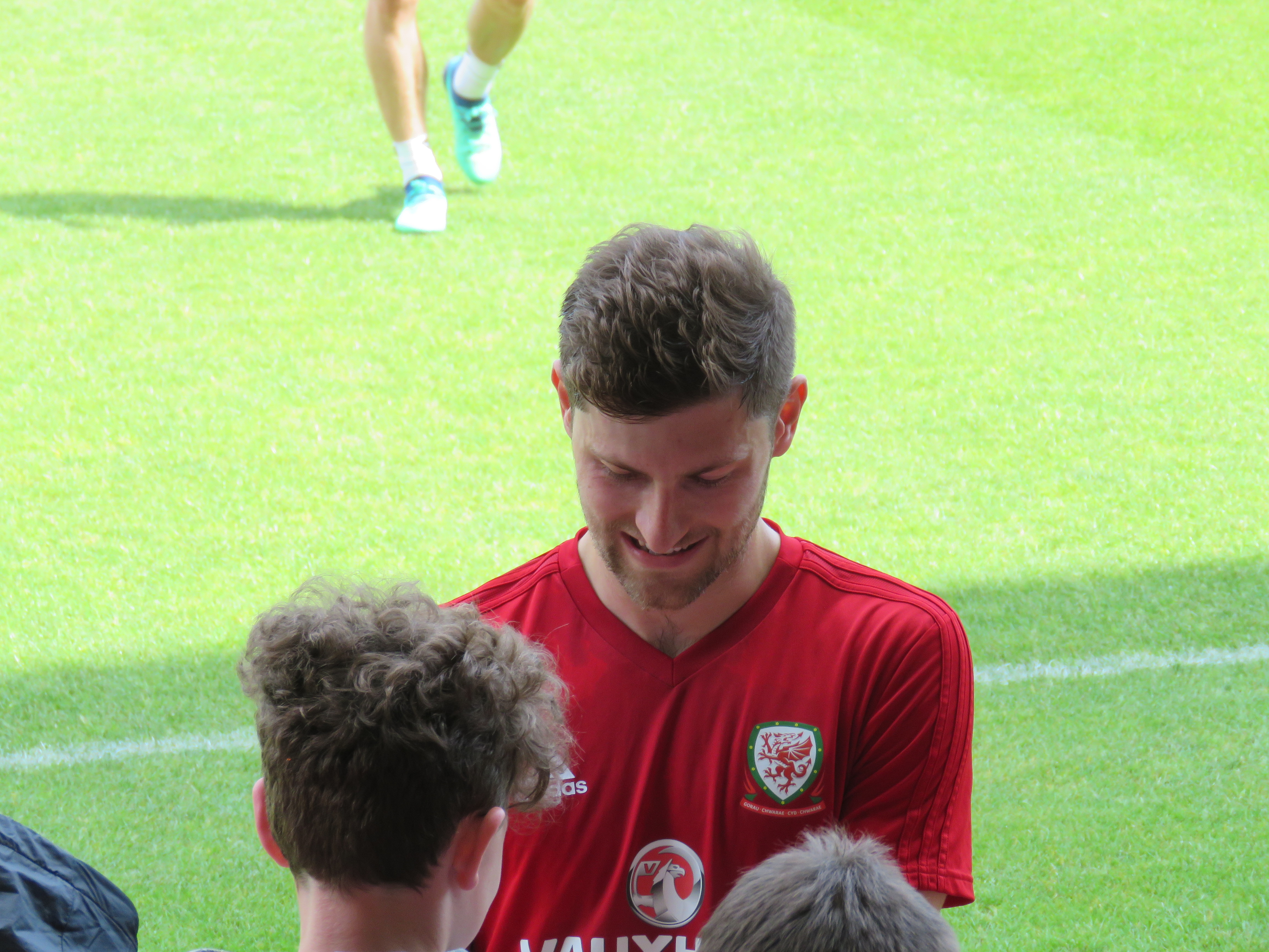 Ben Davies signing autographs after a Wales football team training session in Wrexham